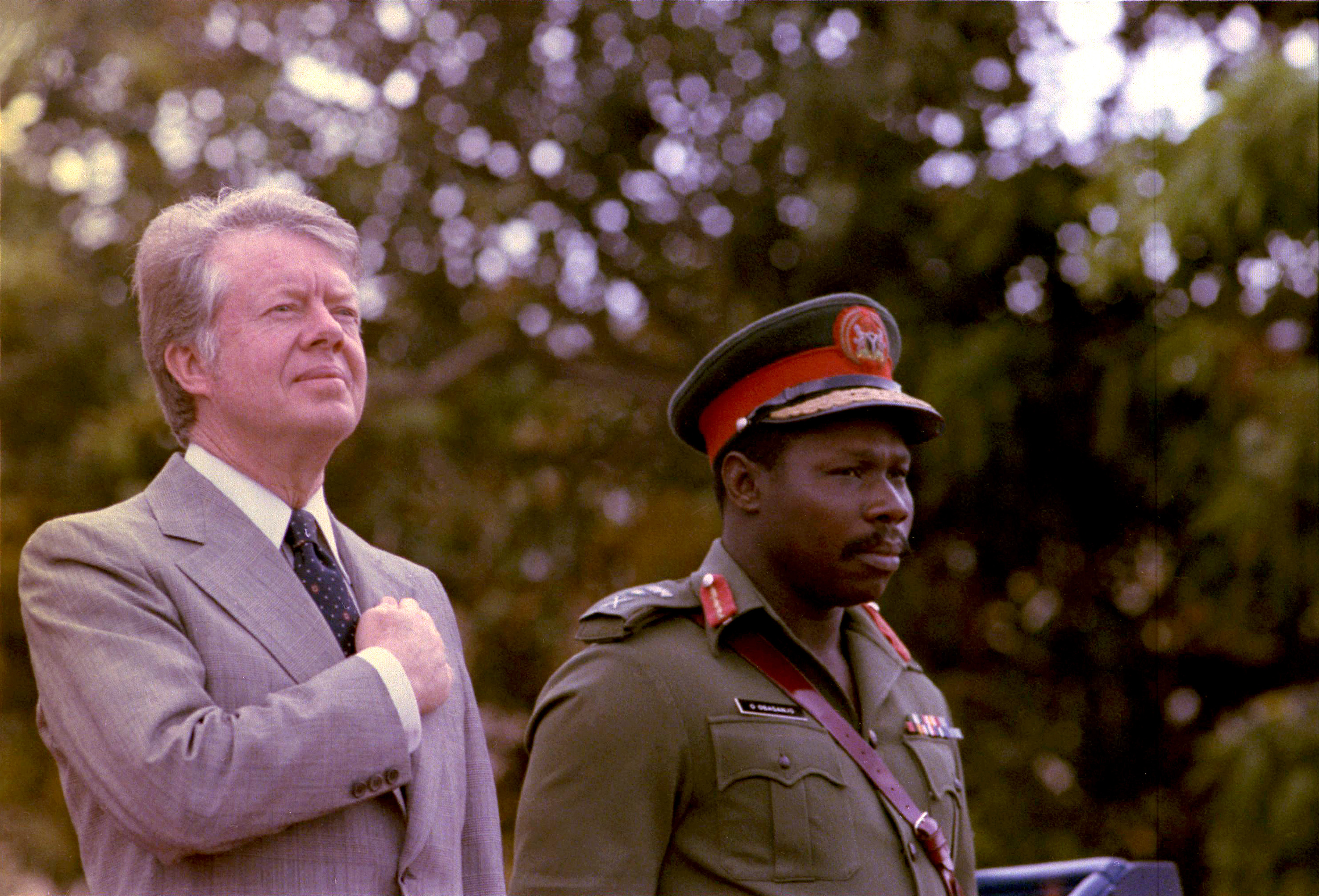 Jimmy Carter and Lt. Gen. Olusegun Obasanjo during arrival ceremonies for the President's state visit to Nigeria.